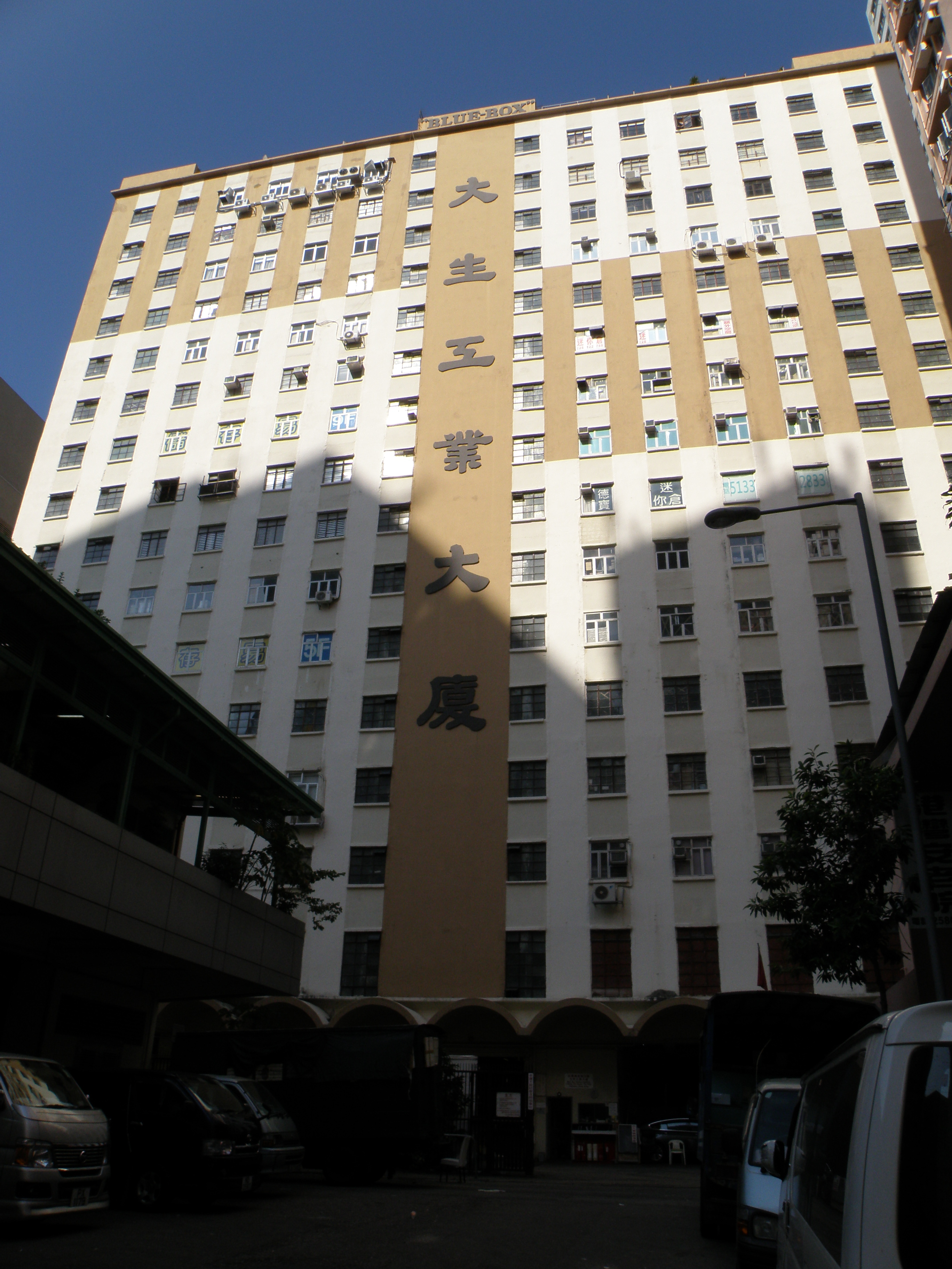 Blue Box Factory Building in Tin Wan, Hong Kong.